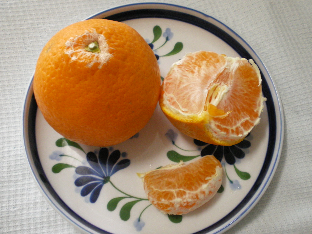 kiyomi ome of citlaous